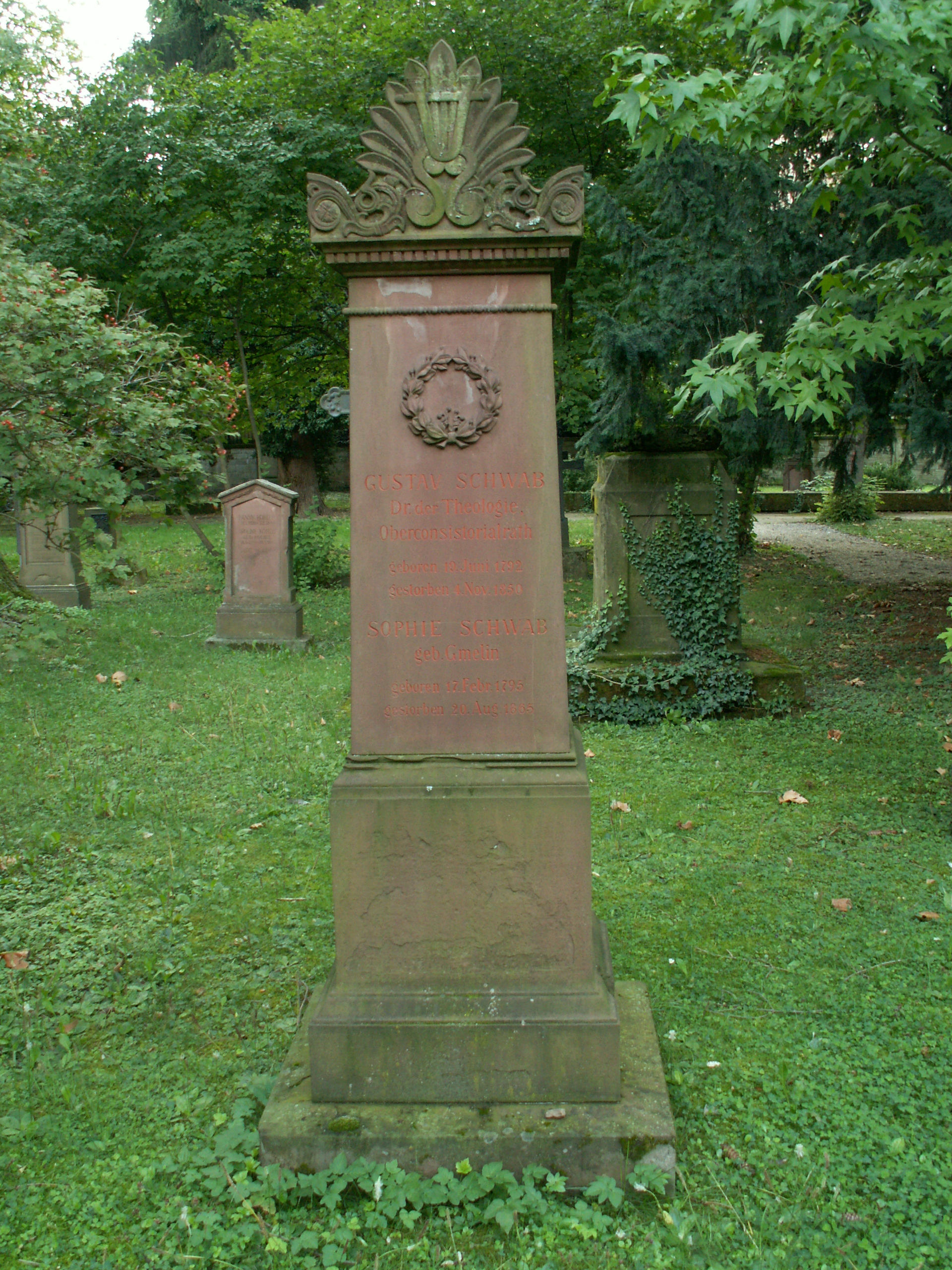 Grave of Gustav Schwab on the Hoppenlau graveyard in Stuttgart, Germany